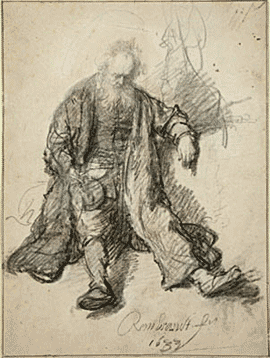 The drunk Lot